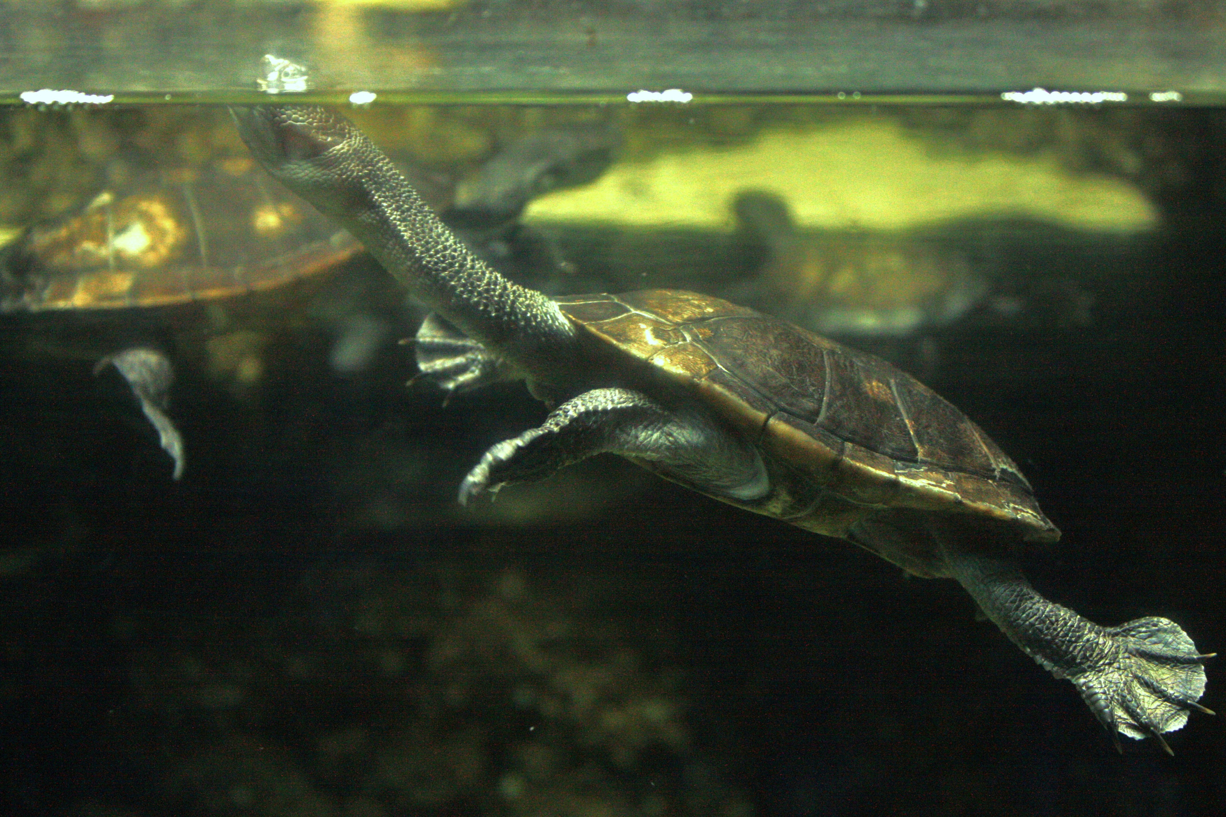 Roti Island snake-necked turtle (Chelodina mccordi). Columbus Zoo, Powell, Ohio.